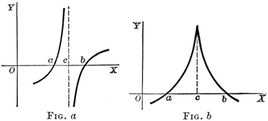 Discontinuous functions.